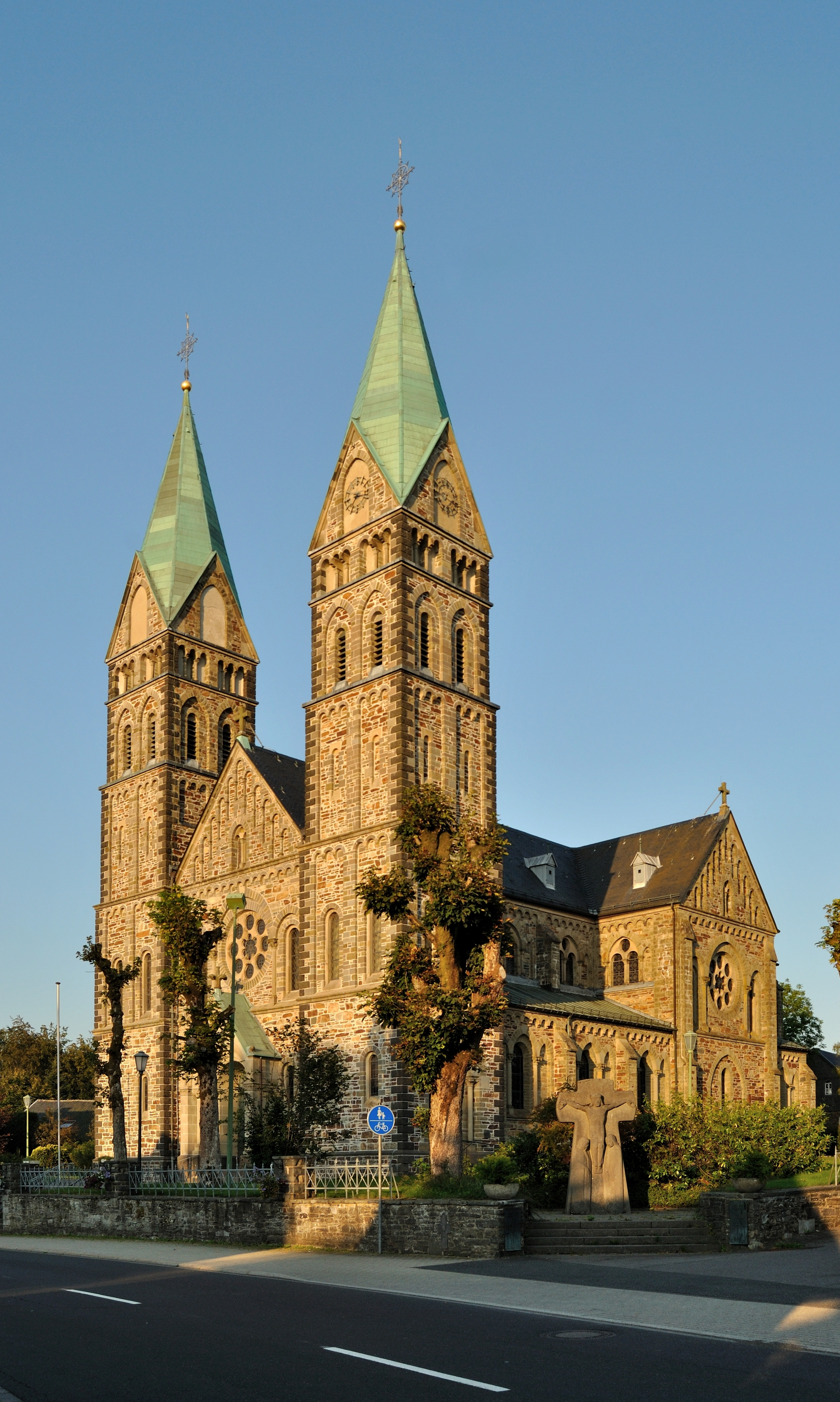 Monschau (North Rhine-Westphalia, Germany) – district Kalterherberg – Eifel Cathedral Saint LambertThis photograph was taken with a Nikon D3000